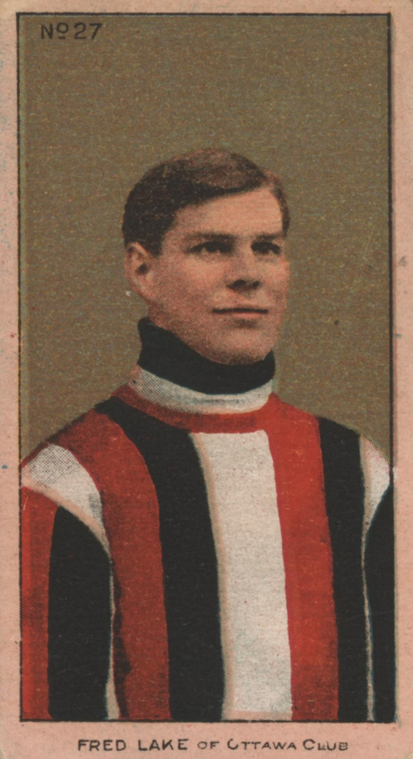 1910-1911 Imperial Tobacco C56 Fred Lake hockey card